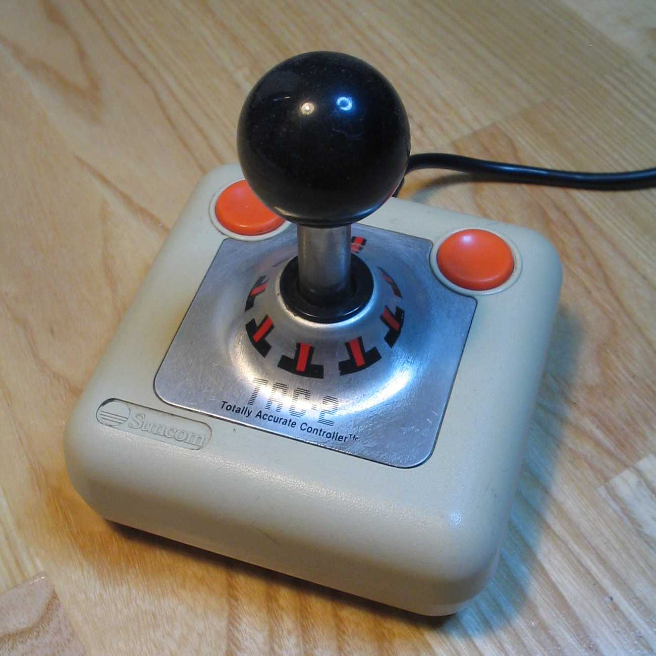 A white Suncom TAC-2 (Totally Accurate Controller™). This joystick is well known of its extremely accurate stick controller and poorly working fire buttons.